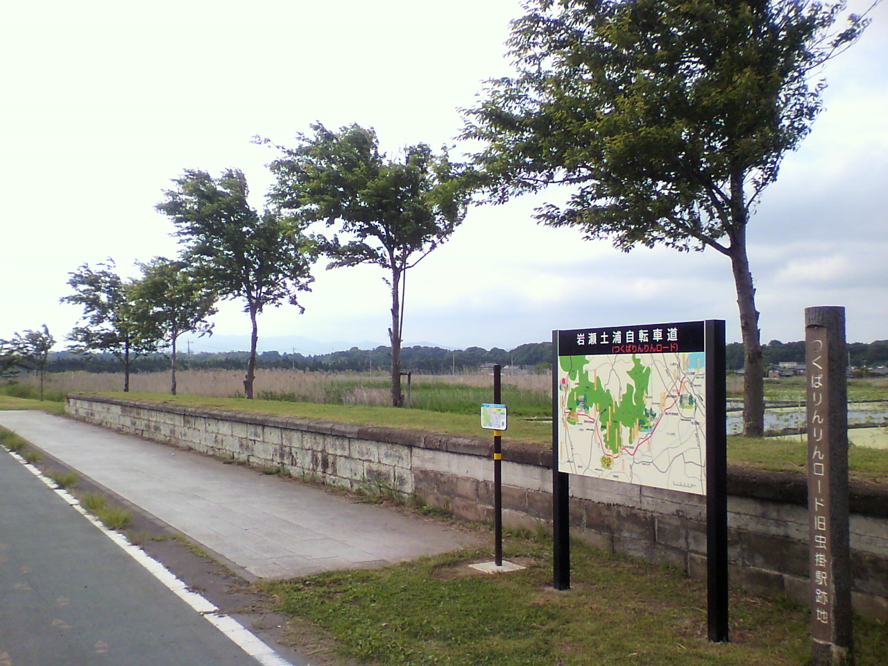 This is the site of the Tsukuba Railway Mushikake station in Tsuchiura, Japan.